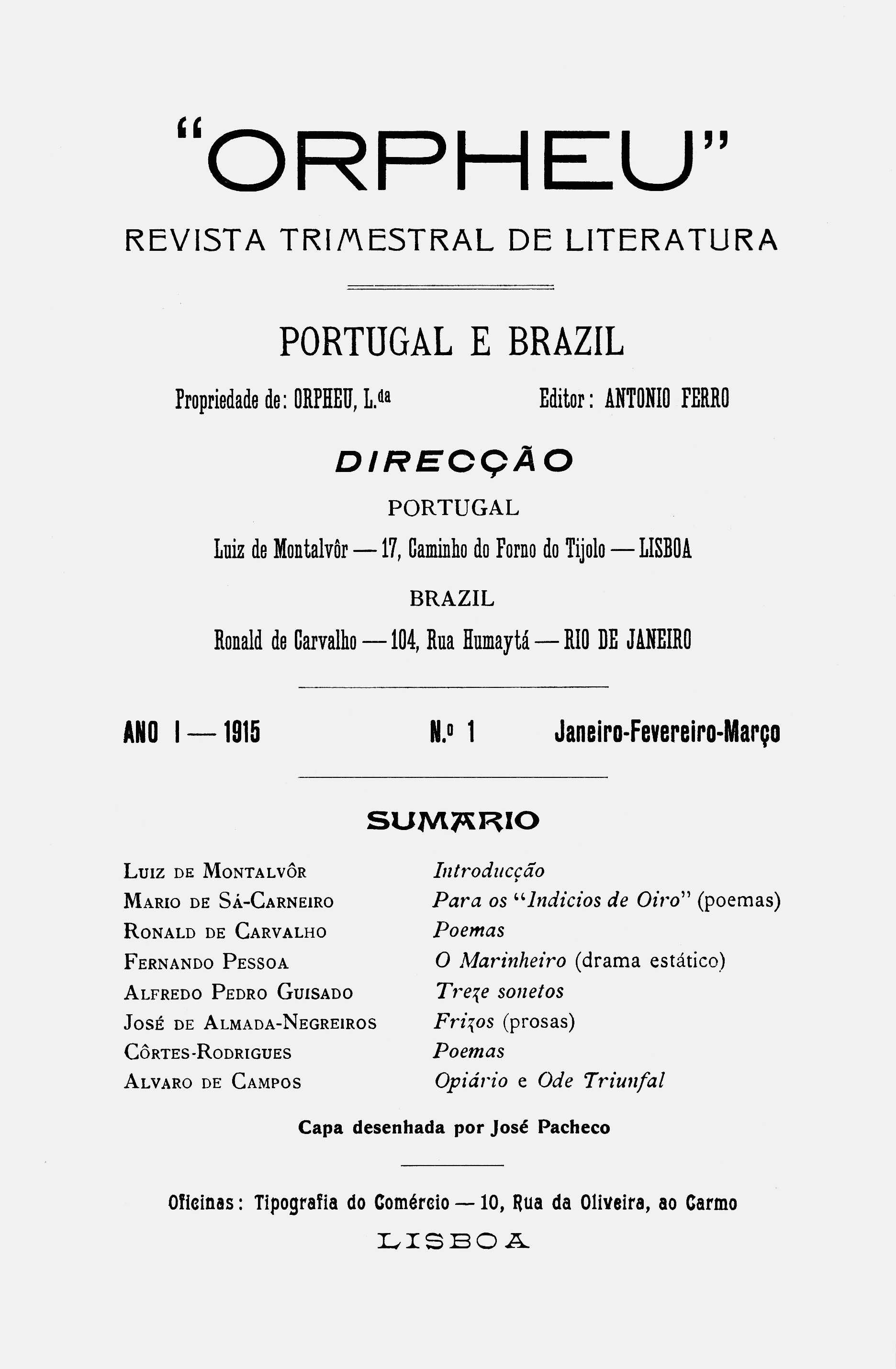 First page of the literary magazine Orpheu, Issue nr.1, Jan-Feb.-Mar. 1915, published in Lisbon, Portugal.